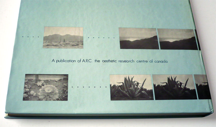 Back cover of Michael Byron's book “Pieces, An Anthology”, published by Aesthetic Research Center, Vancouver, Canada, 1976.